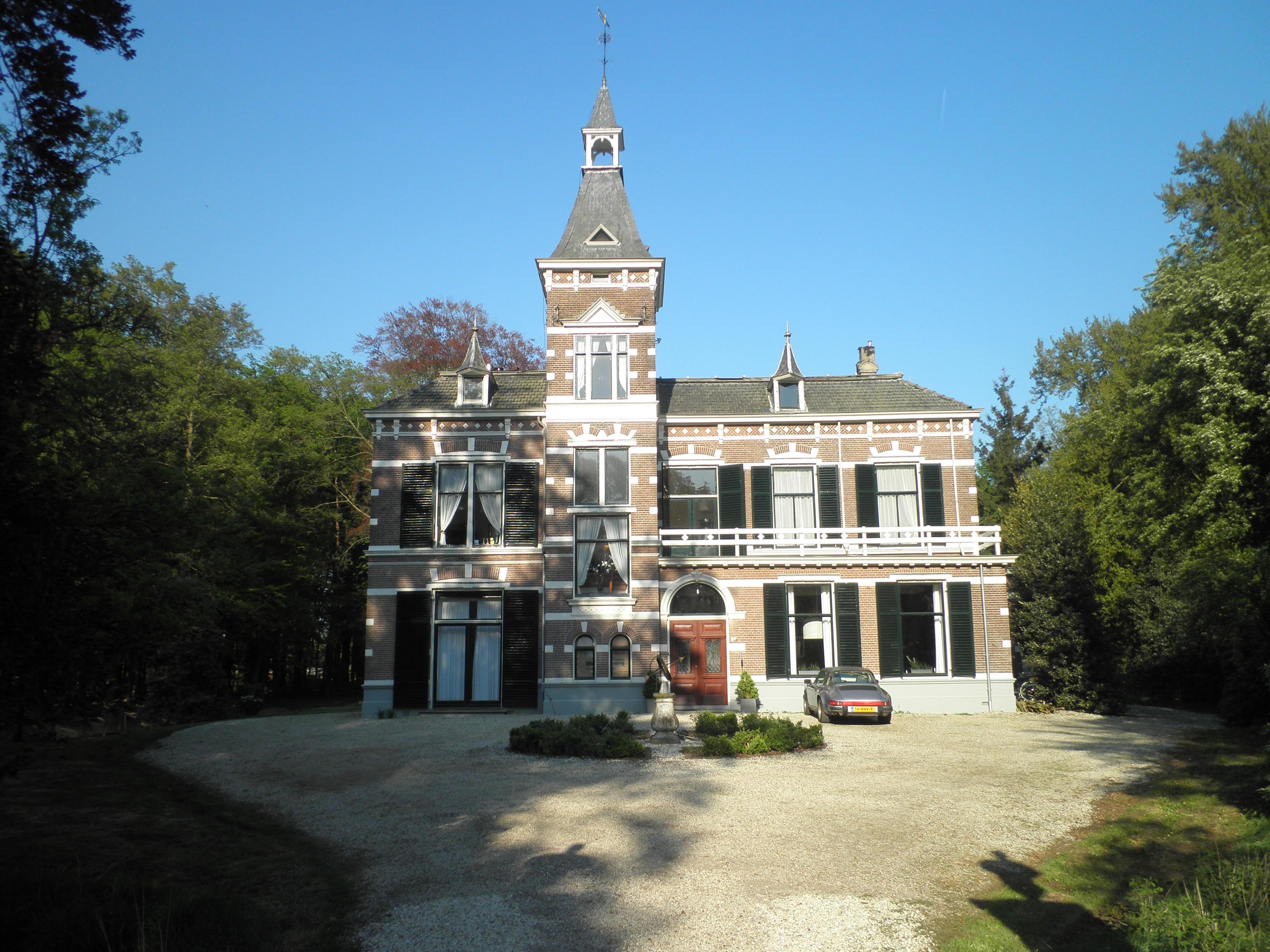 Main estate built of brick on two floors from a rectangular floor plan covered by a truncated hipped roof with Boulet tiles. The extended stair tower has three floors and a concave arched pavilion roof, diagonally slated, whose top is designed as a belfry. Nationally listed heritage